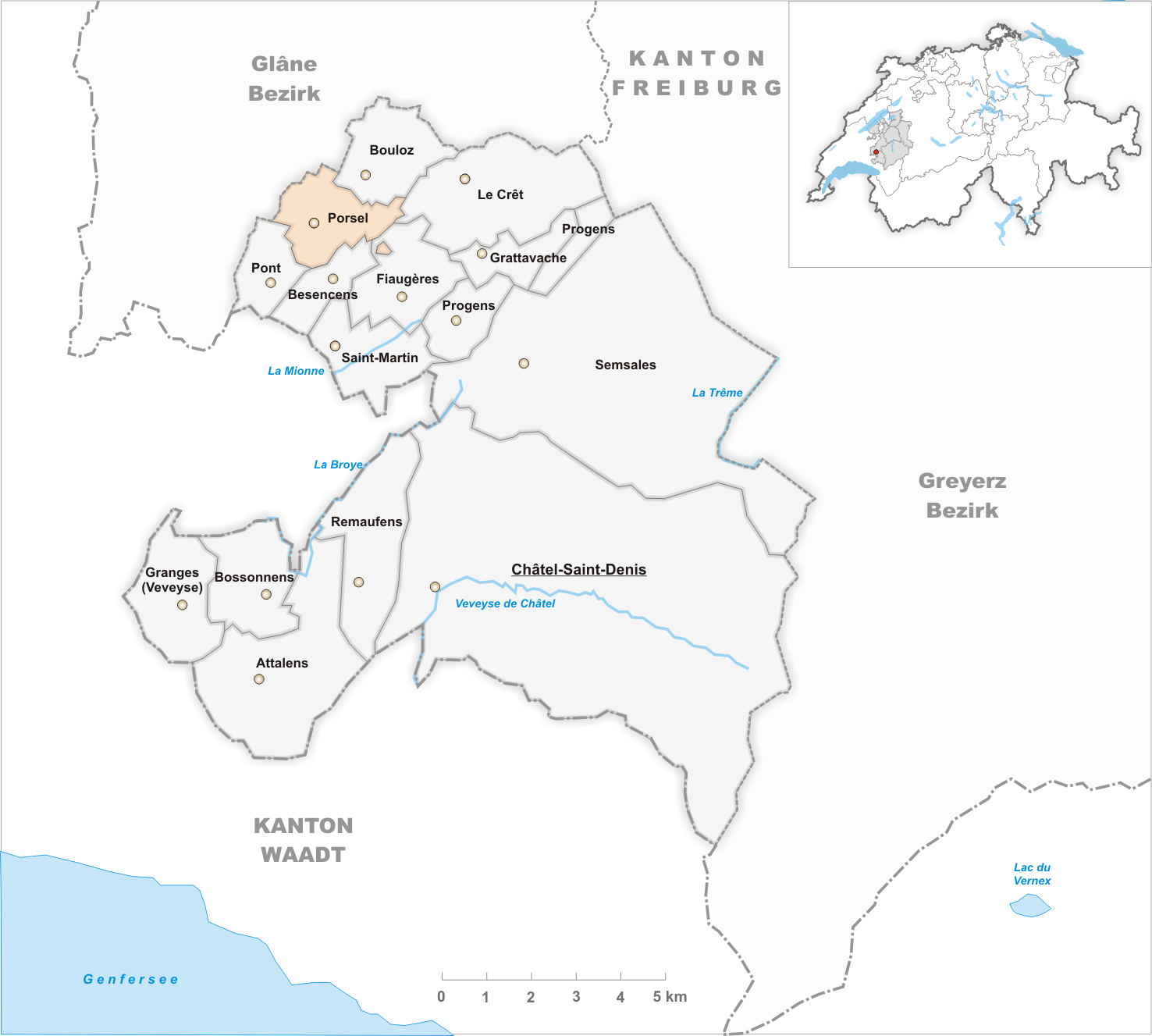 Municipality Porsel Artist: Tschubby